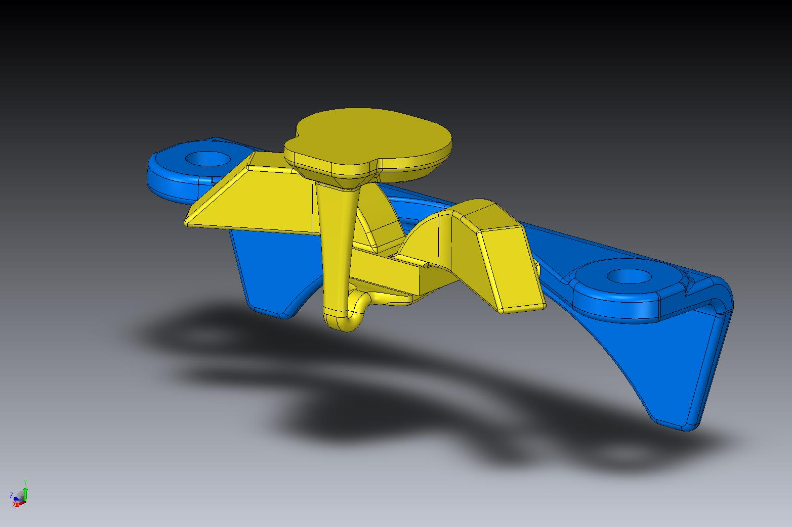 3D CAD model of casting with gating and filtering system. This printed mold designed to include a J spru with ceramic foam filter. Integrally printing the gating system into the 3D printed sand molds allows for more complex gating systems and mold filling and casting solidification simulation.